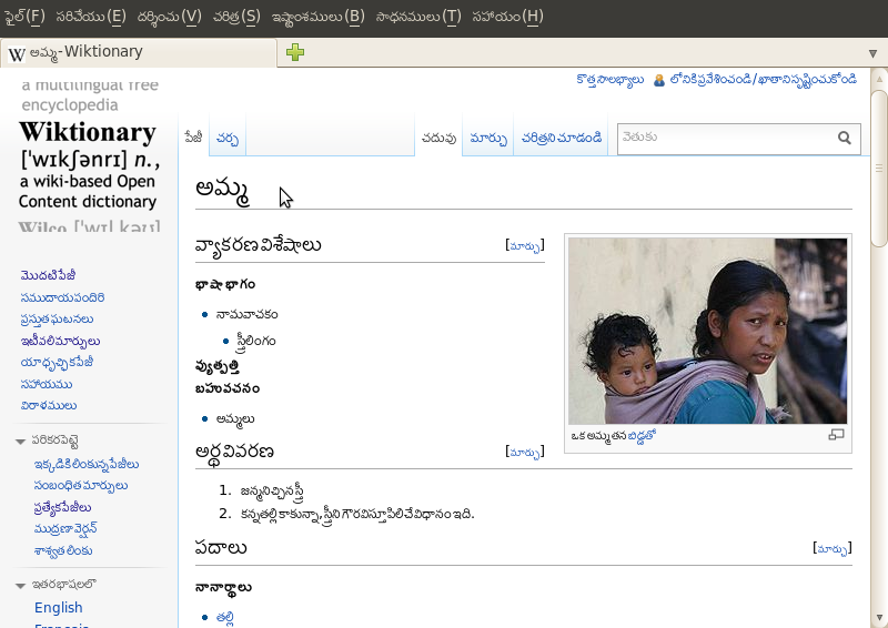 screen shot of page for telugu word amma meaning mother